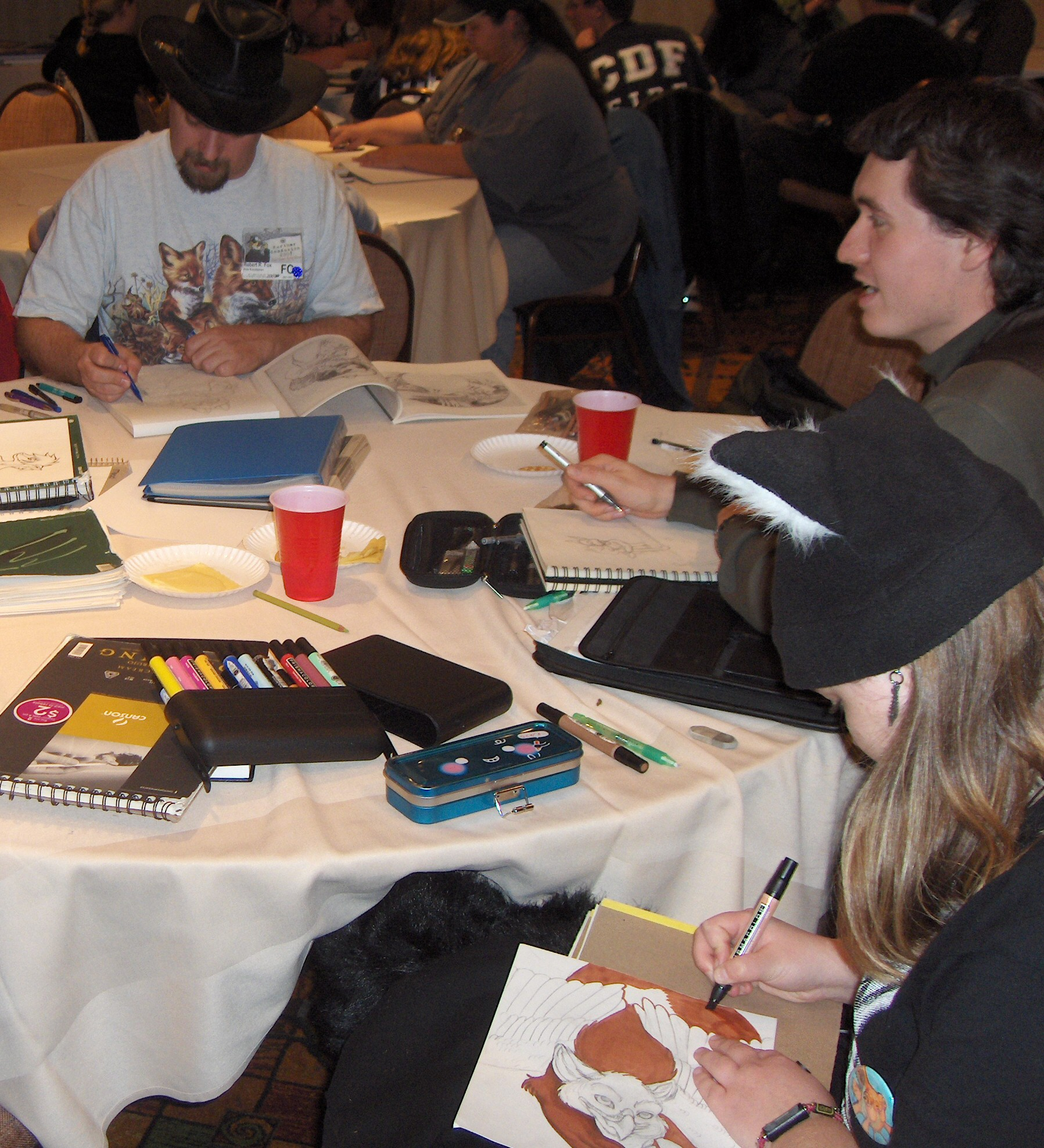 Furry artists sit catch up on art commissions in a panel about ArtSports at Further Confusion 2007.